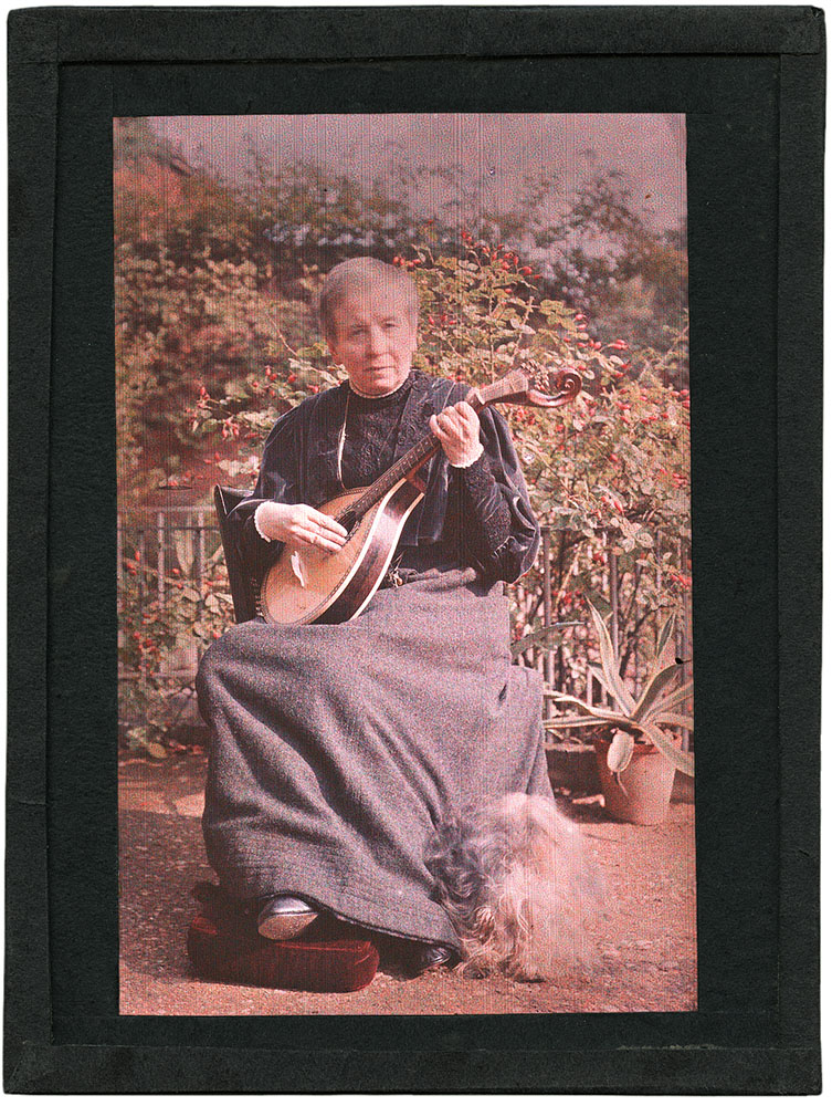 Sarah Angelina Acland, Self-portrait, Autochrome